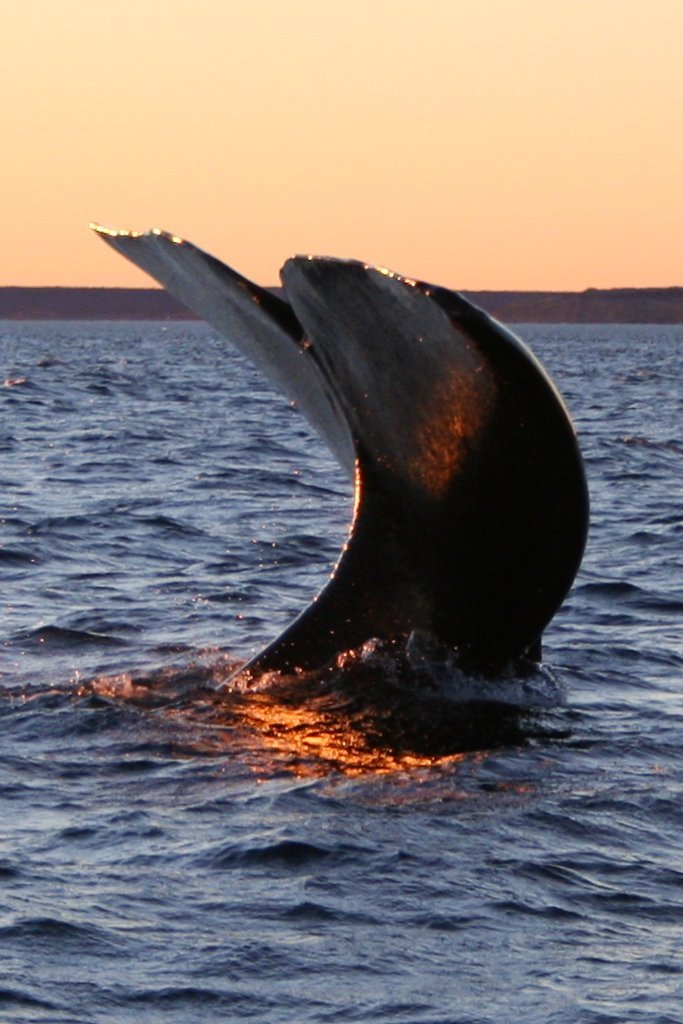 Southern right whale (Peninsula Valdés, Patagonia, Argentina)